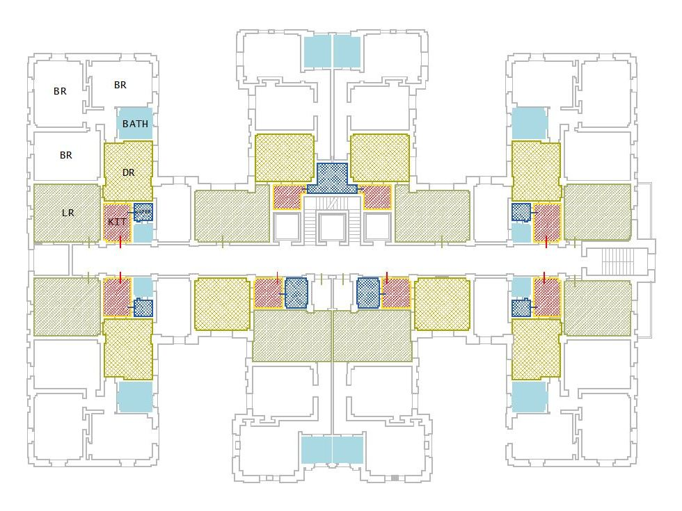 Room distribution plan, López Serrano Building